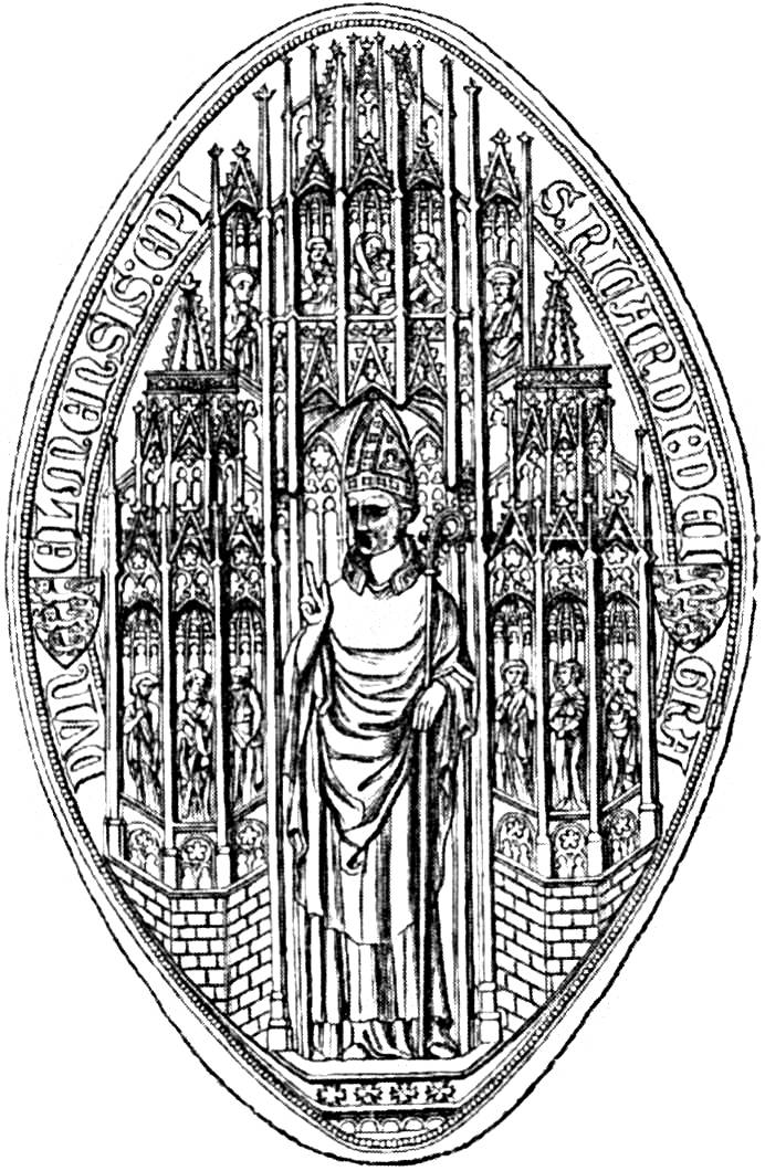 Seal of Richard de Bury, a.k.a Richard Aungerville, Bishop of Durham. Mandorla-shaped seal of Richard de Bury, Bishop of Durham. The Latin inscription is: S(igillum) Ricardi dei grat(ia) Dunelmensis epi(scopus) ("seal of Richard, by the grace of God Bishop of Durham"). Arms of King Edward III on either side.